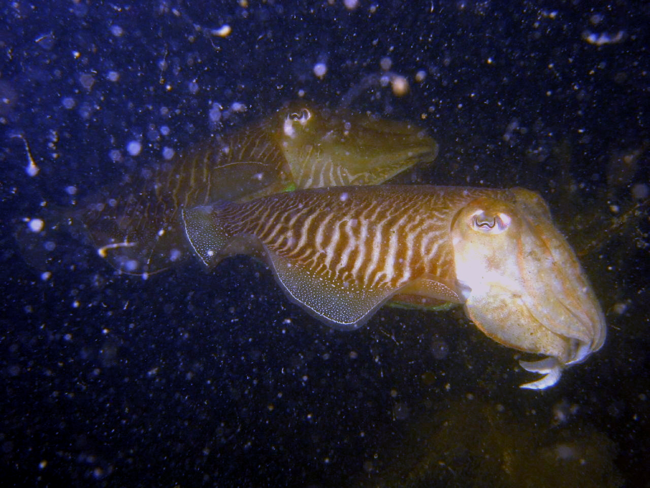 Sepia officinalis, Oosterschelde, Zeelandbrug, taken in the night of 25 May 2006